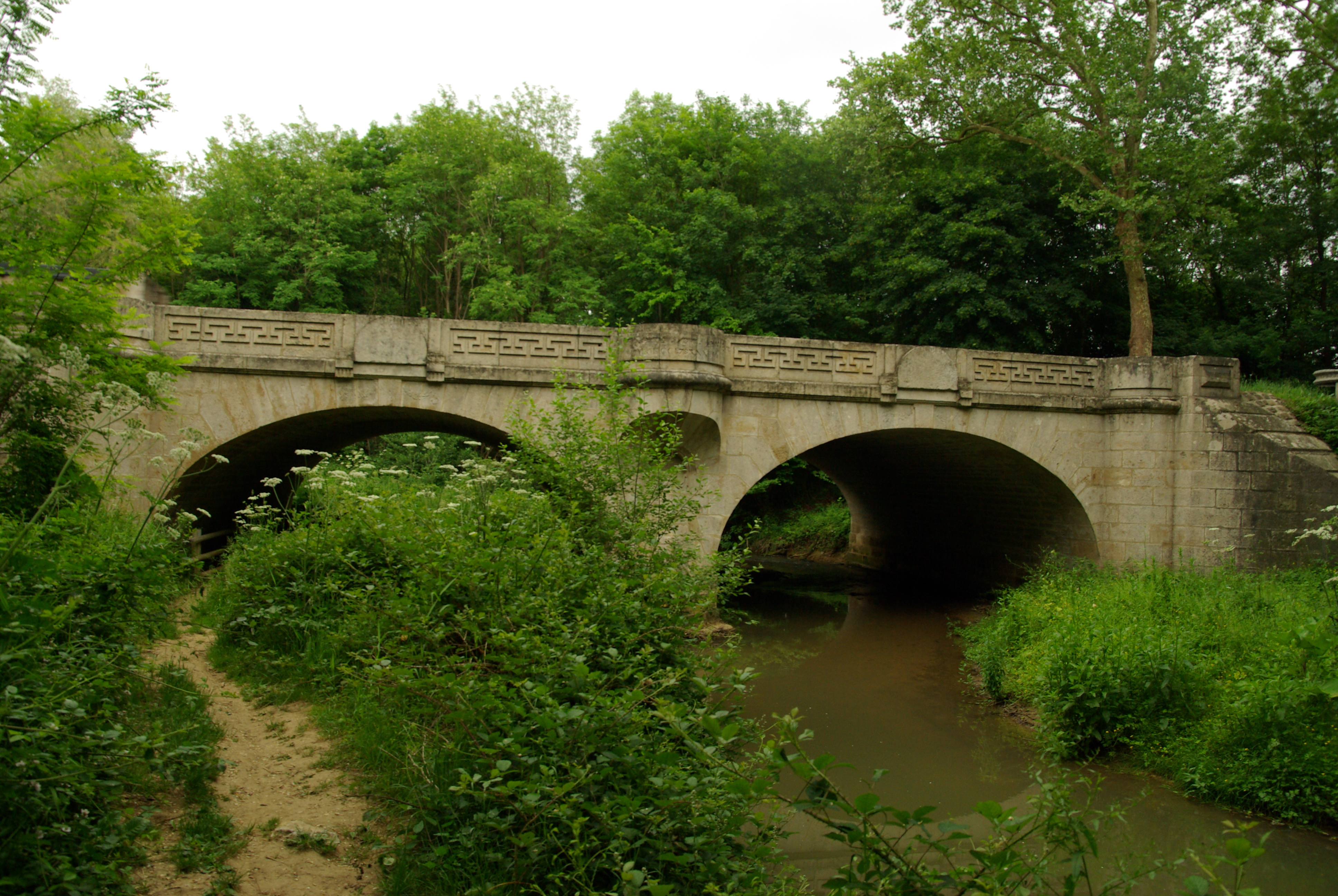 Monéteau, the stone bridge over Baulche